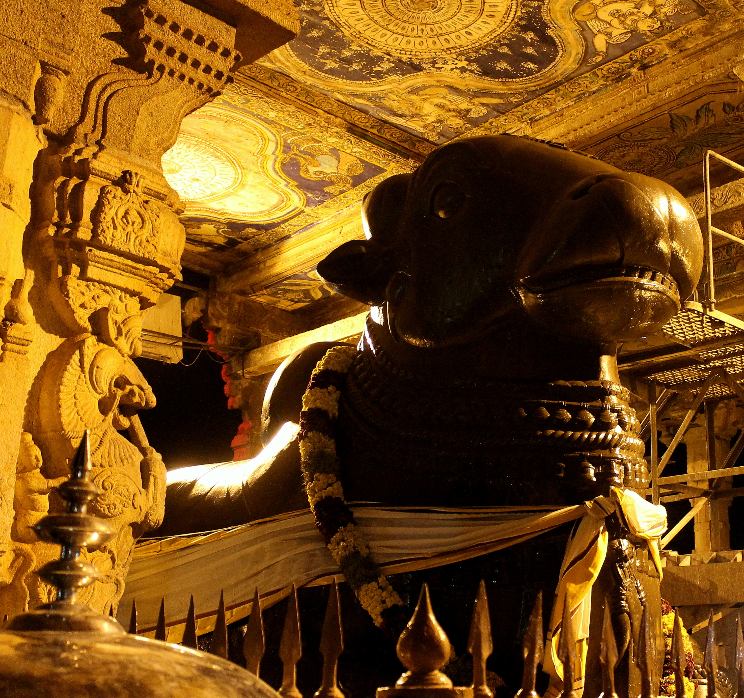 This Nandi (Bull) picture was taken at Thanjavur Big Temple of Shivan which was built by Raja Raja Cholan I King in 1010 AD. This temple was more than 1000 yrs old. Nandi is meant to be the Vahanam (Transport) assistance of Lord Shiva (God) . This Nandi (Bull) is carved out of a single rock, at the entrance measuring about 16 feet long and 13 feet high .It is located at Thanjavur, Tamilnadu, India.